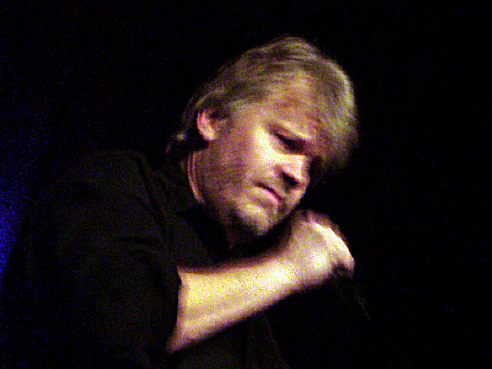 Swedish comedian, singer and songwriter Ronny Eriksson pictured in 2002.